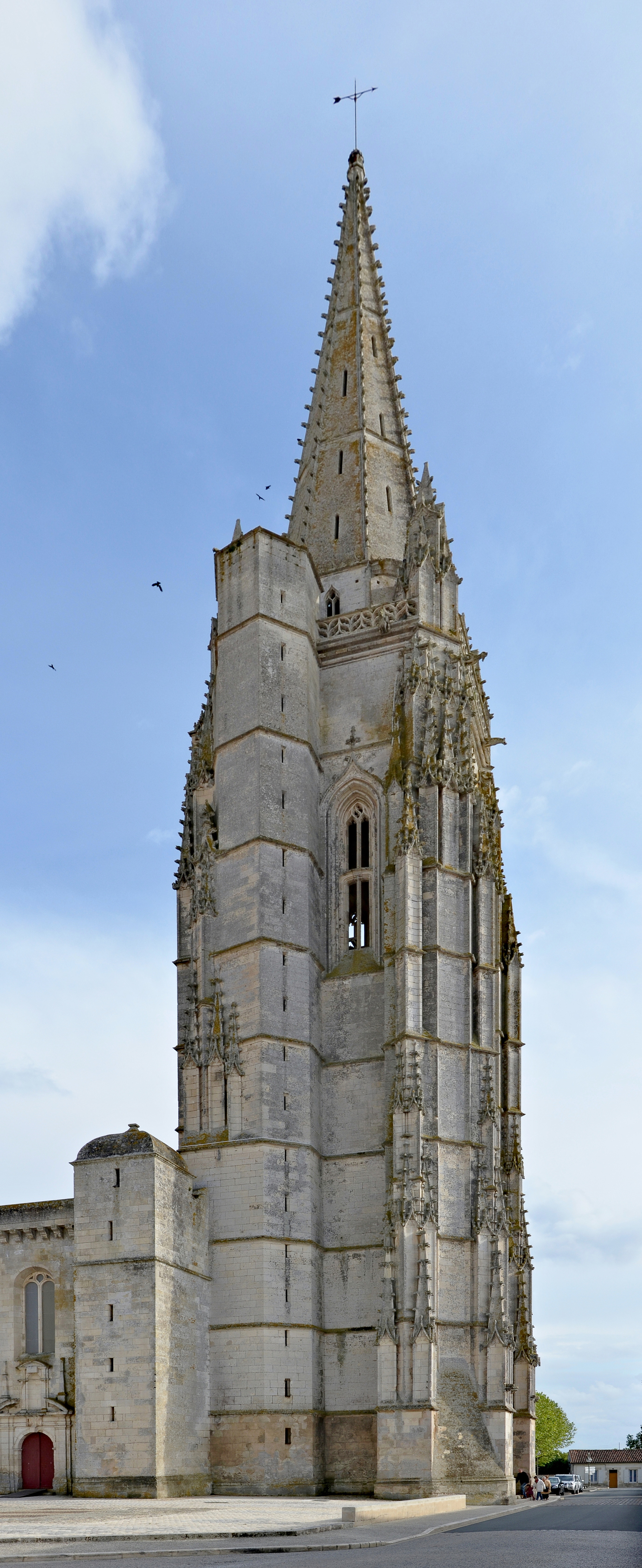 Porch tower of the church (15th-18th century), 85 m high, Marennes, Charente-Maritime, France. .